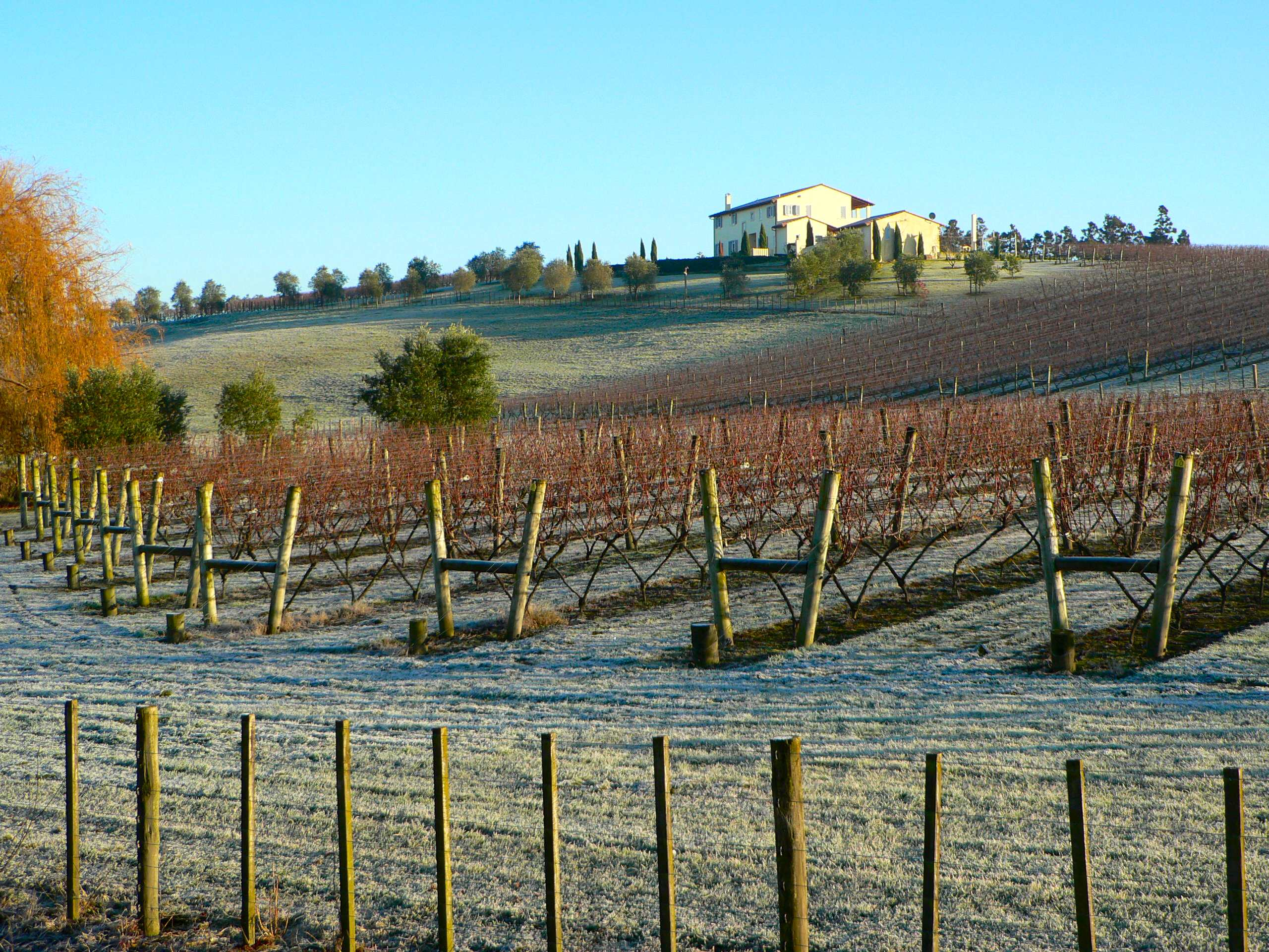 Taken in Kumeu, Waitakere City, Auckland, New Zealand. This photo illustrates a relatively new style of wine grapevine spur training that trains the spurs into a 60° V shape on multiple trellis wires. The aim is to allow more sunlight and air circulation into the wines and increase yields.